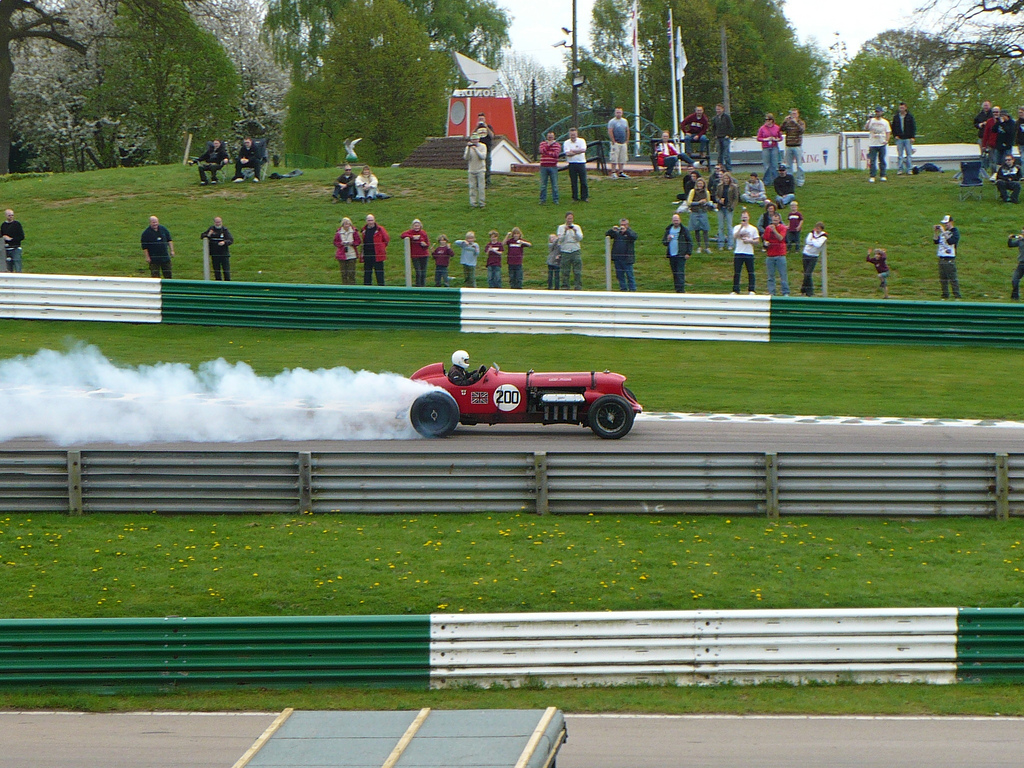 Christopher Williams demonstrates the torque of his Napier Lion-engined Napier-Bentley special at the Mallory Park circuit, May 2010.